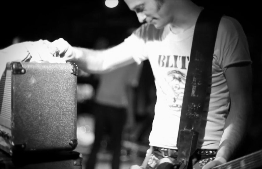 Karl Backman performing with AC4 at The Zoo in Brisbane Australia April 2011